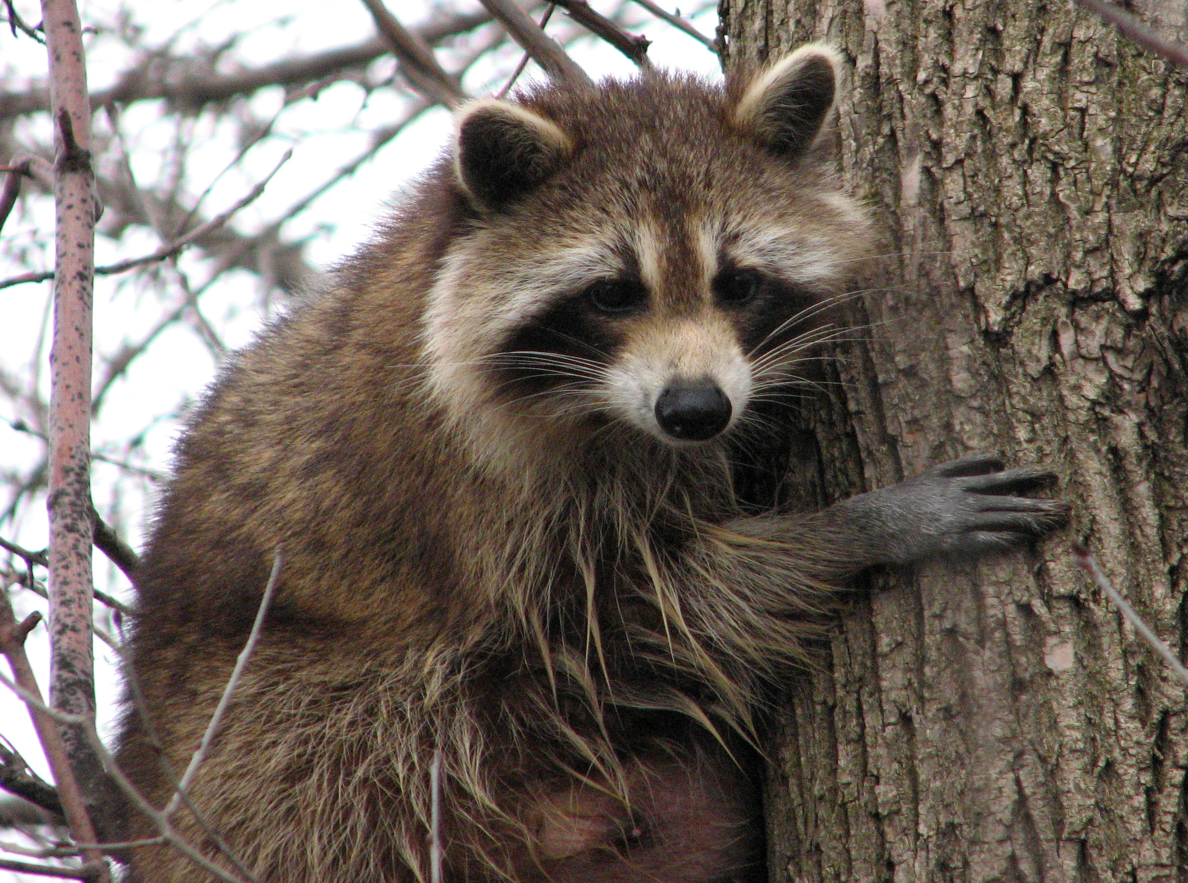 Raccoon (Procyon lotor), female, closeup in tree, Ottawa, Ontario Rumantsch: In urset american (Procyon lotor) sin ina planta ad Ottawa en il Canada.